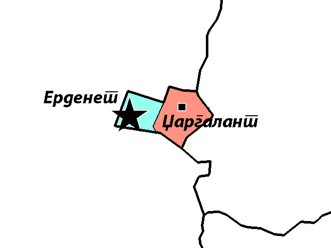 Translated map of Orkhon sum on Macedonian language